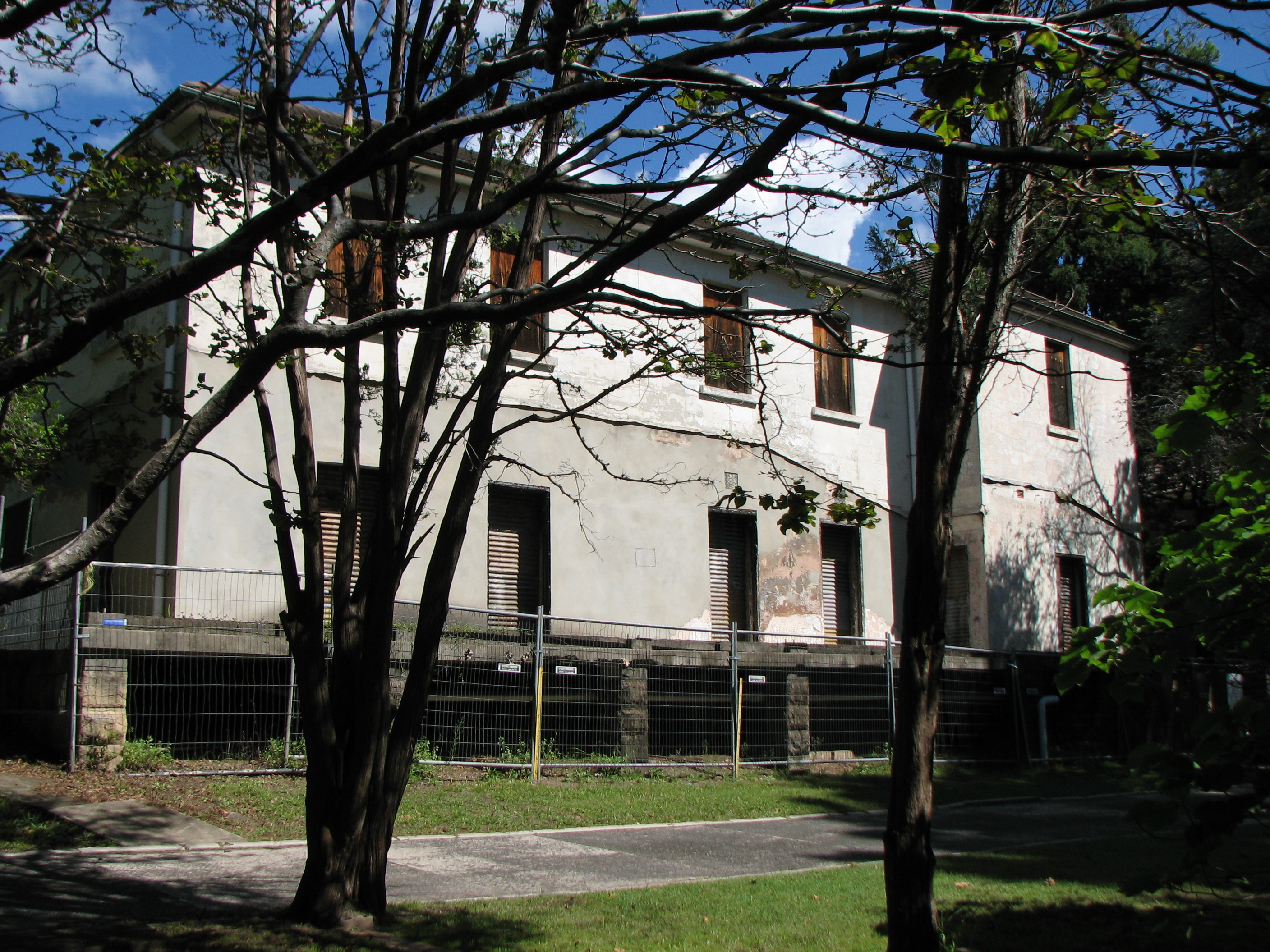 Broughton Hall, Callan Park, in 2020 - facing the garden area. The building is listed on the New South Wales State Heritage Register.